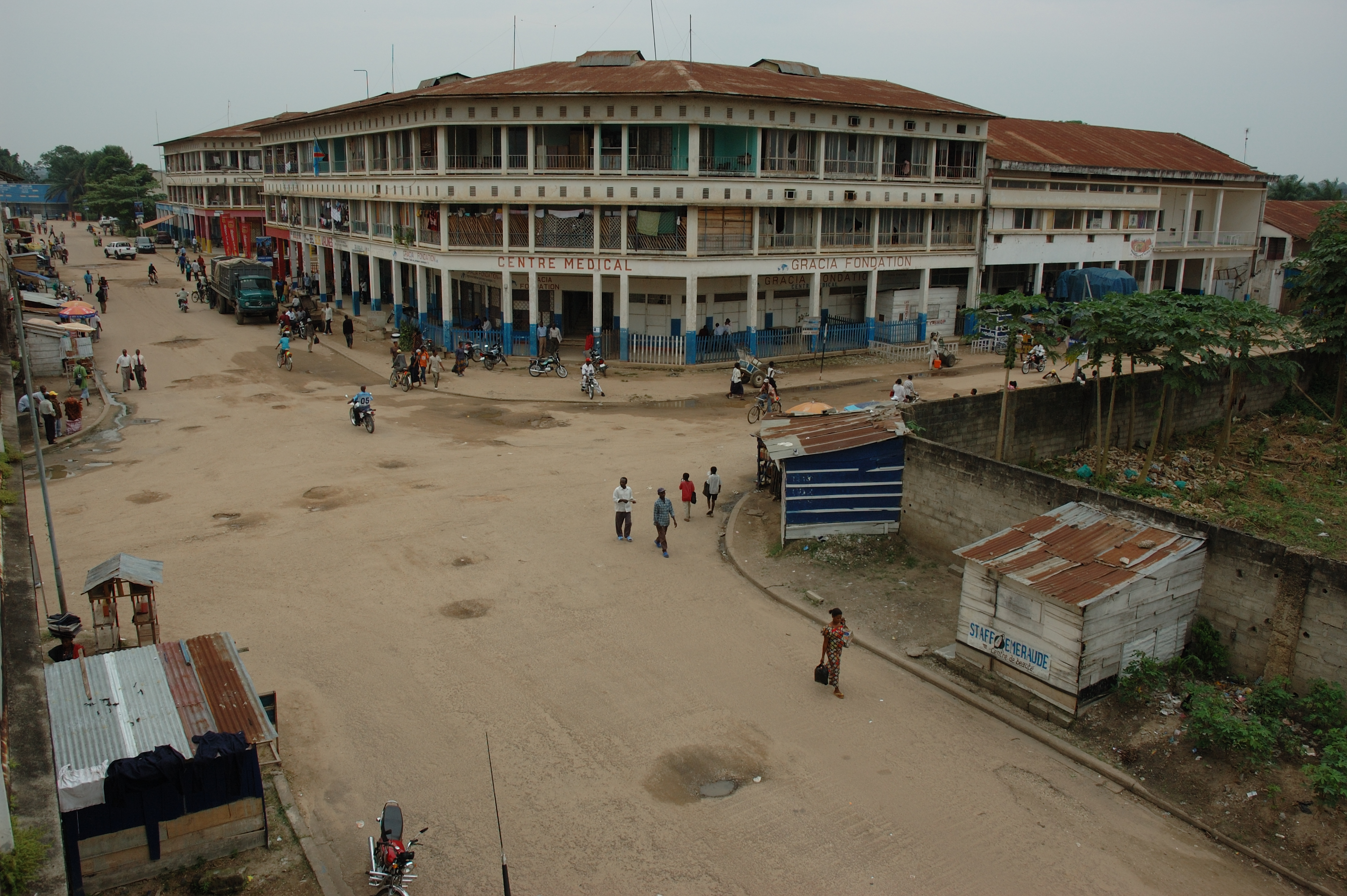 Kisangani, water front